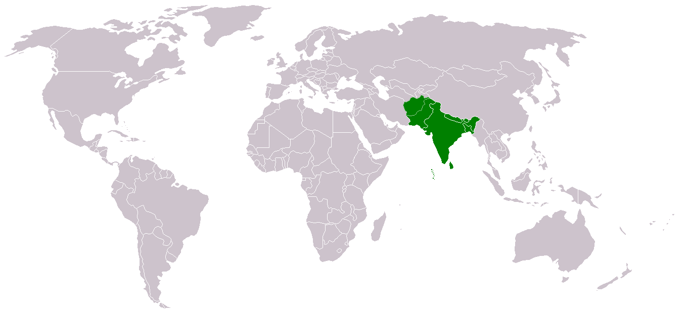 Member countries of SAARC